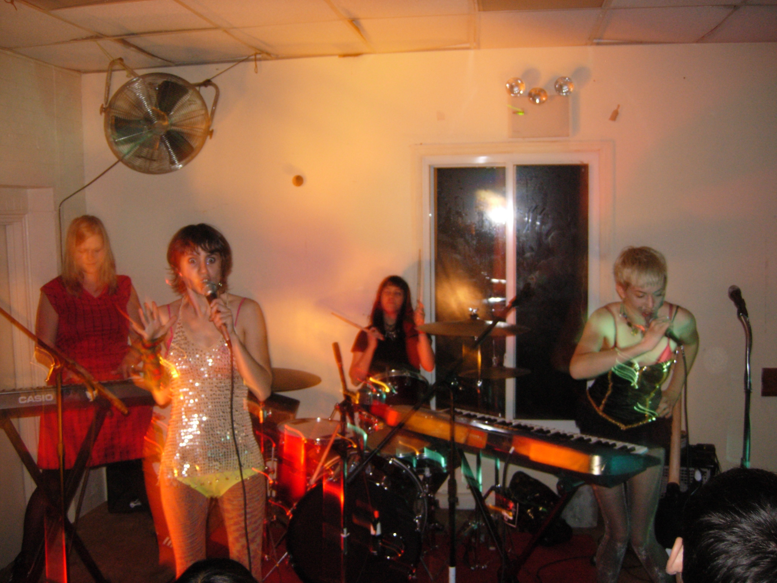 The Trucks performing at Death By Audio in Brooklyn, New York, October 2007.